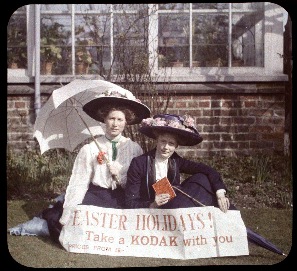 Accession Number: 1978:0204:0011 Maker: Unidentified Title: Two women holding a sign that readsEaster Holidays! Take a Kodak with you Prices from 5- Date: ca. 1917 Medium: color plate, screen (Autochrome) process Dimensions: George Eastman House Collection General – information about the George Eastman House Photography Collection is available at [1]. For information on obtaining reproductions go to